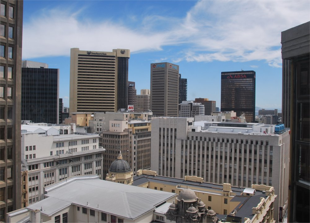 Even from its highest point of easy access, the Mutual Building View is now dwarfed by the more modern buildings in the Cape Town central business district.